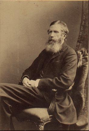 scan of photo out of copyright